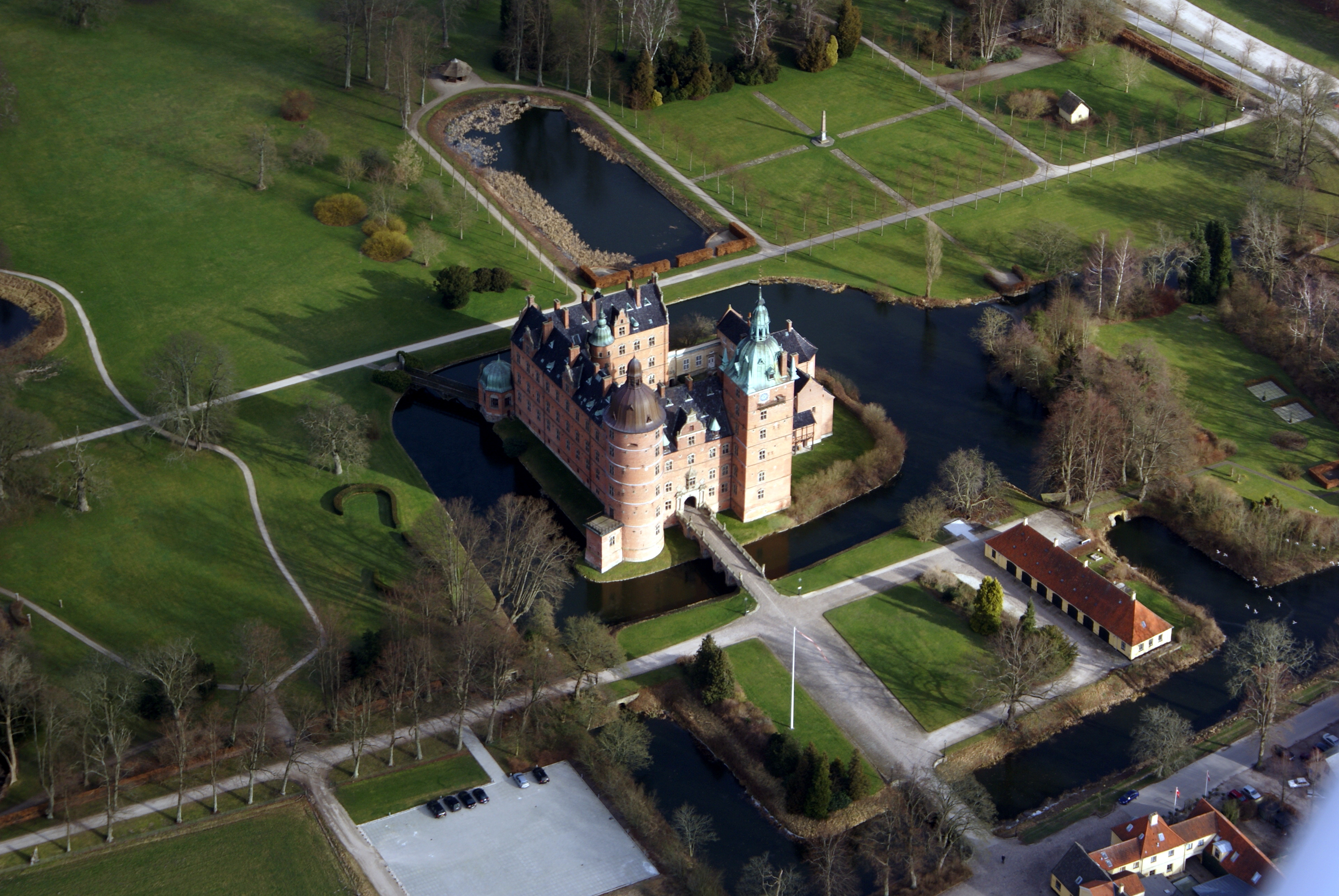 The Vallø Castle, Denmark.